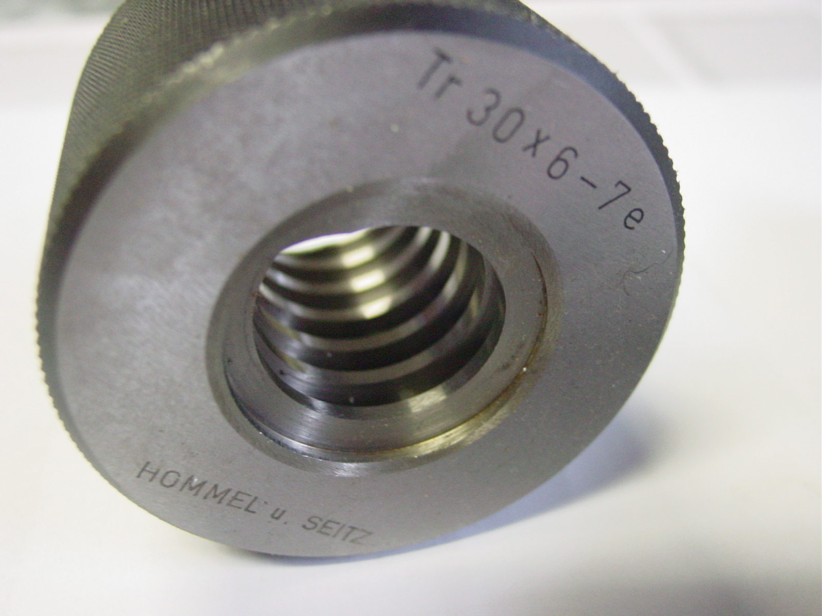 NOT GO ring gauge for thread Tr30x6-7e / Gewindelehrring für Trapezgewinde Tr30x6-7e